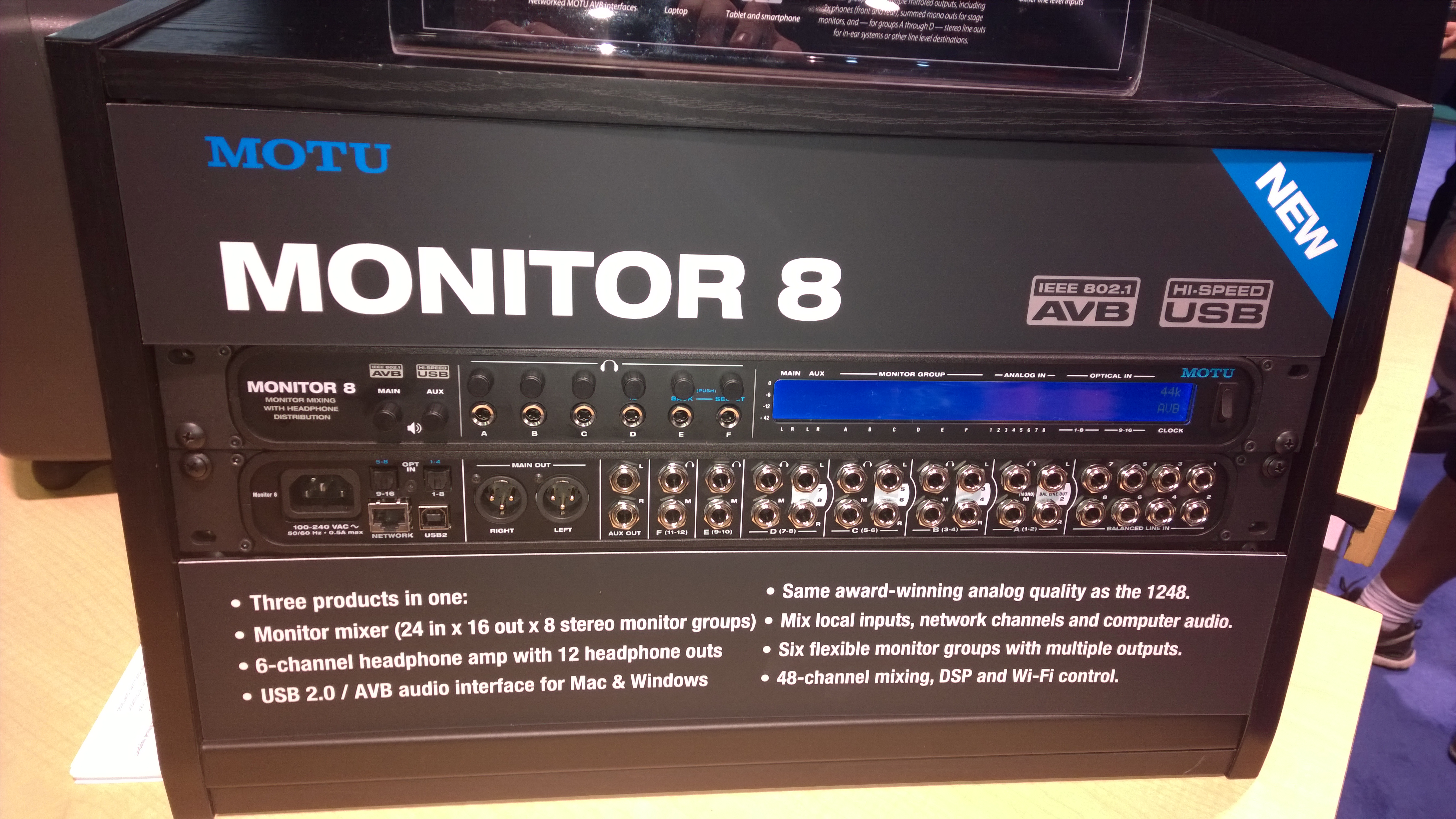 Phone photo from NAMM 2015